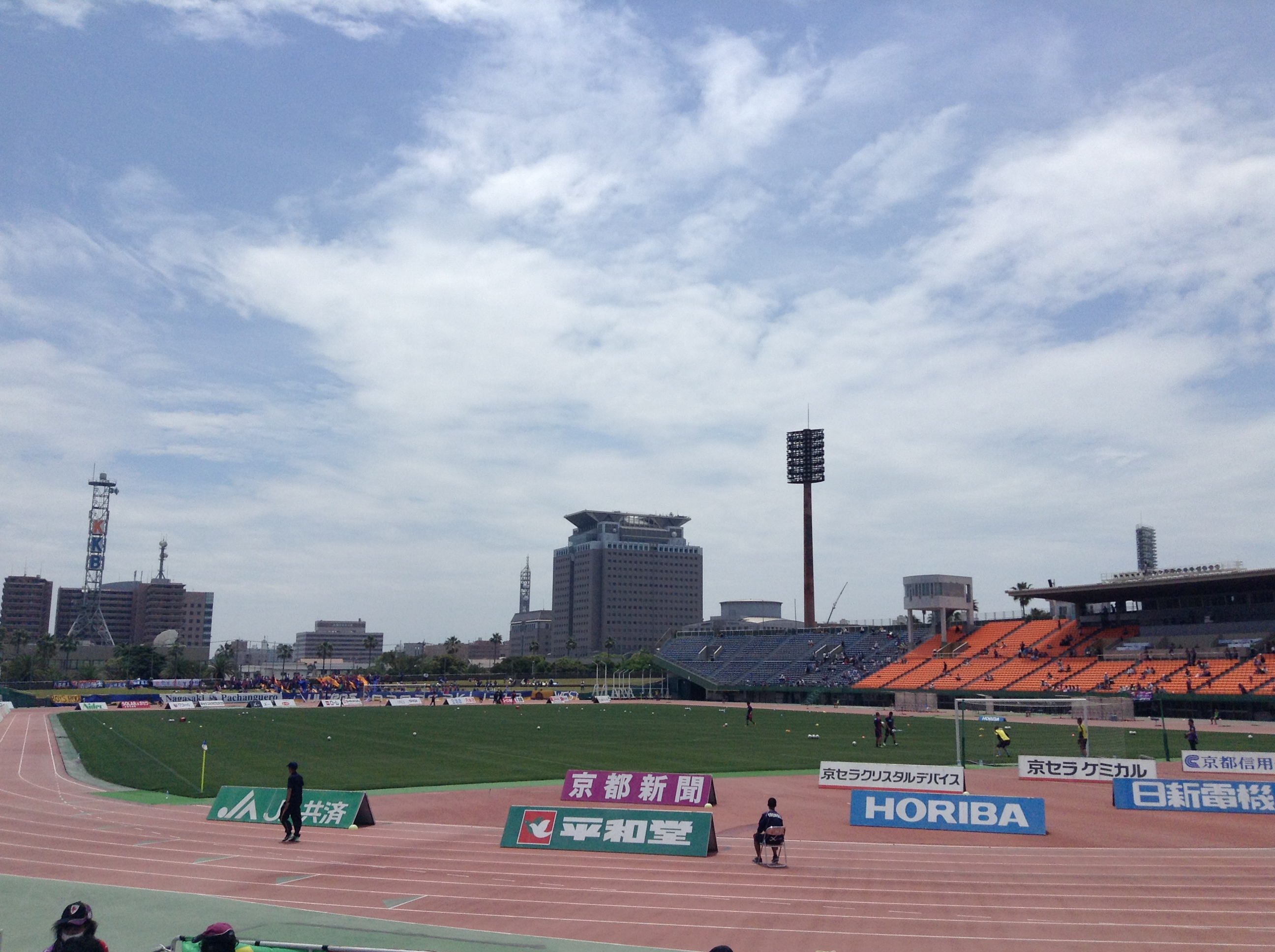 J. League Division 2 ,Kyoto Sanga F.C. vs V-Varen Nagasaki, 11 May, 2014